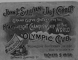 Ticket to 1892 boxing championship match between John L. Sullivan and James J. Corbett, at the Olympic Club, New Orleans (Chartres Street at Montegut, Bywater section).